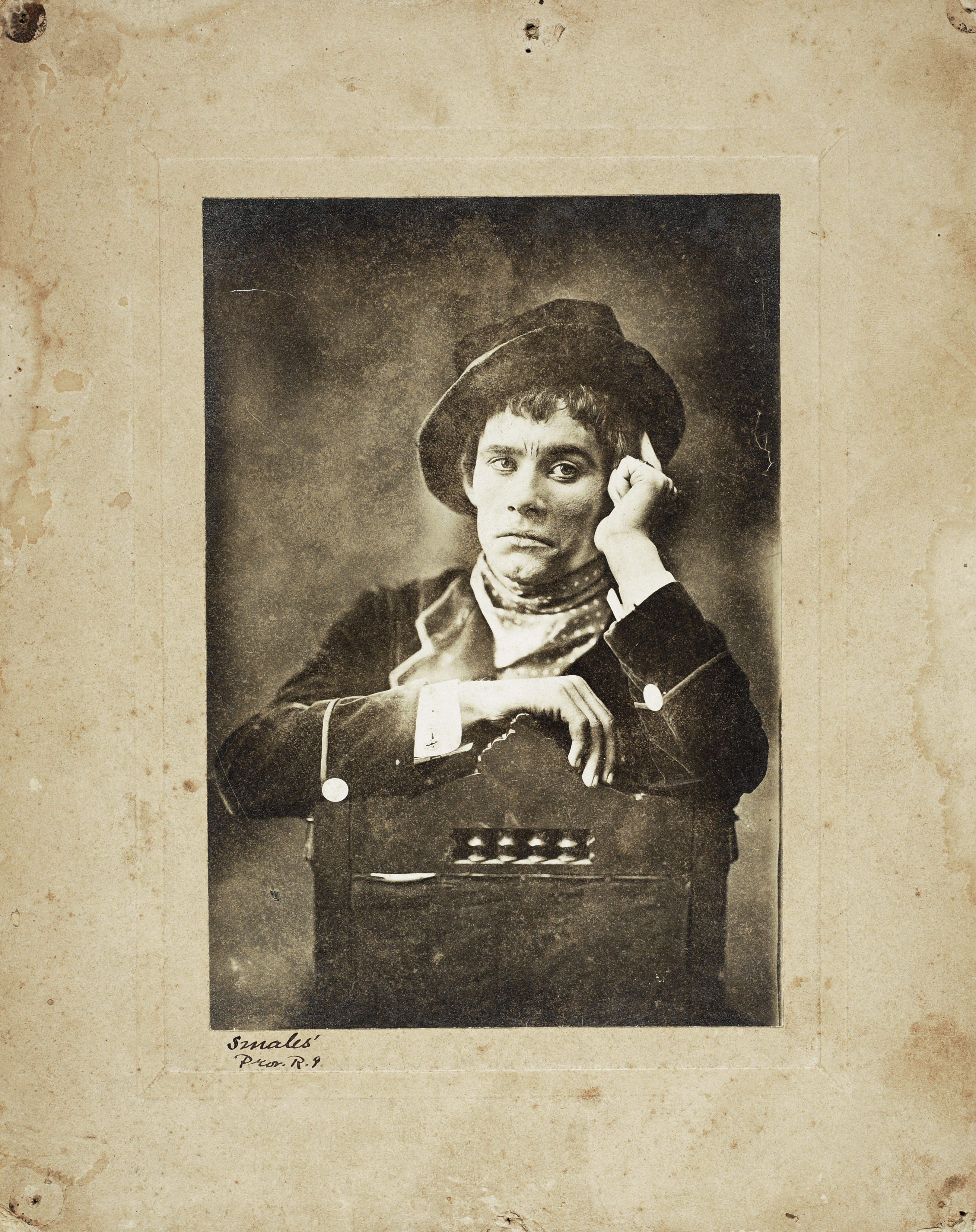 Early publicity photograph of vaudeville comedian Jack Kammerer, later known as Jack Cameron. Photo taken by Thomas Smales of Smales Studio at 489 Westminster Street, Providence, RI.